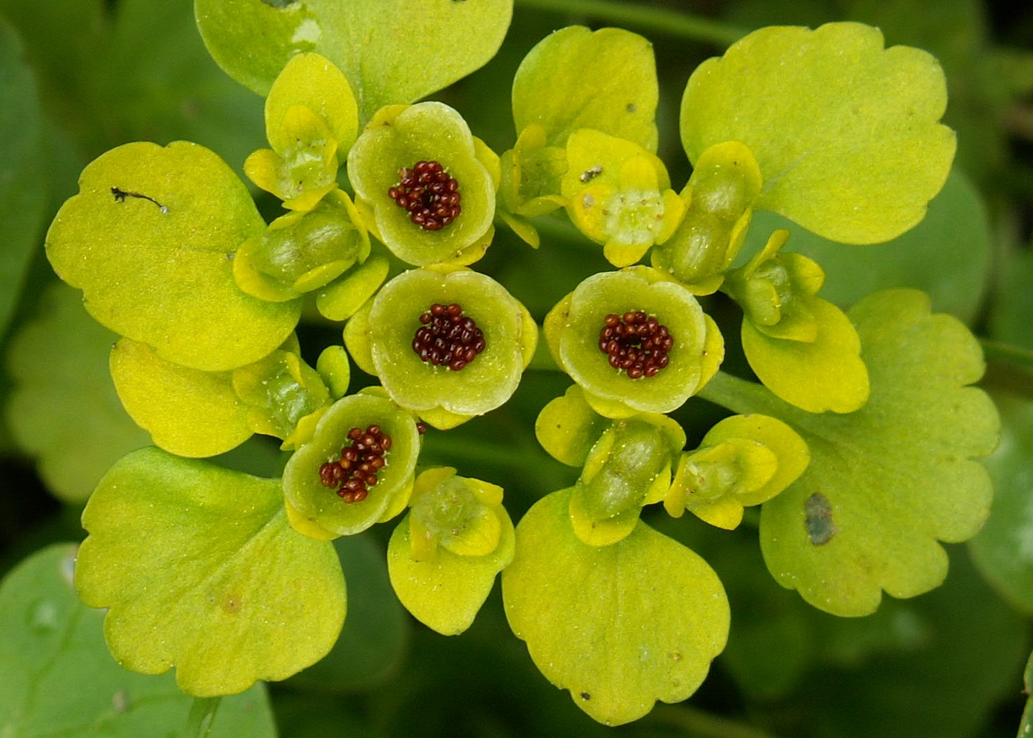 Chrysosplenium alternifolium, fruit, seeds. Golczewo, NW POland